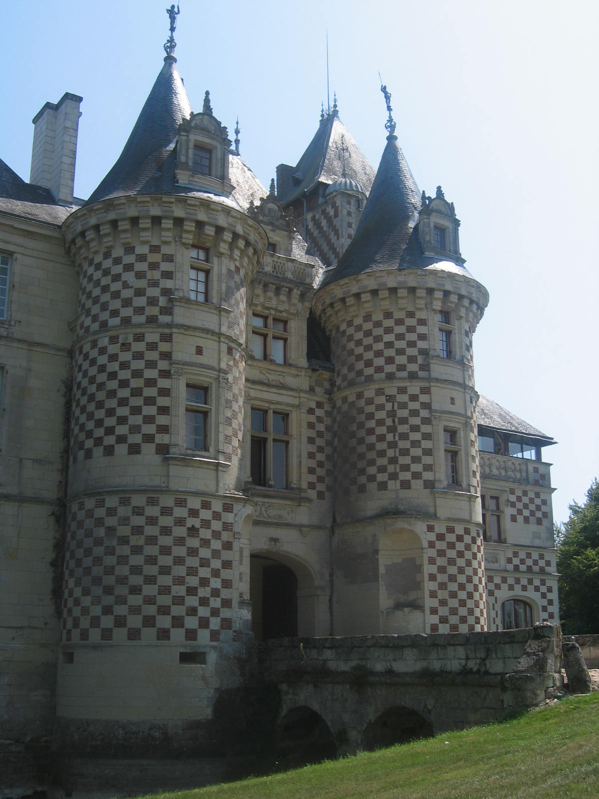 Château des Réaux nearby Bourgeuil